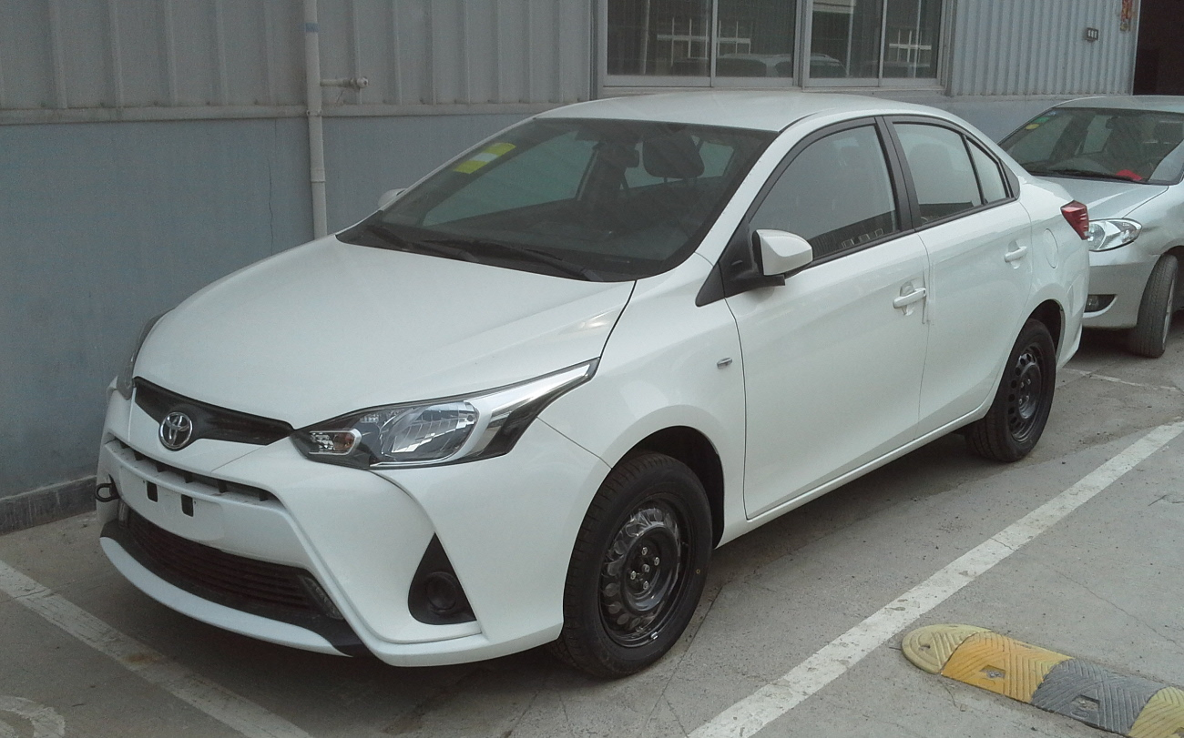 Toyota Yaris L sedan photographed in Zhengzhou, Henan province, China.